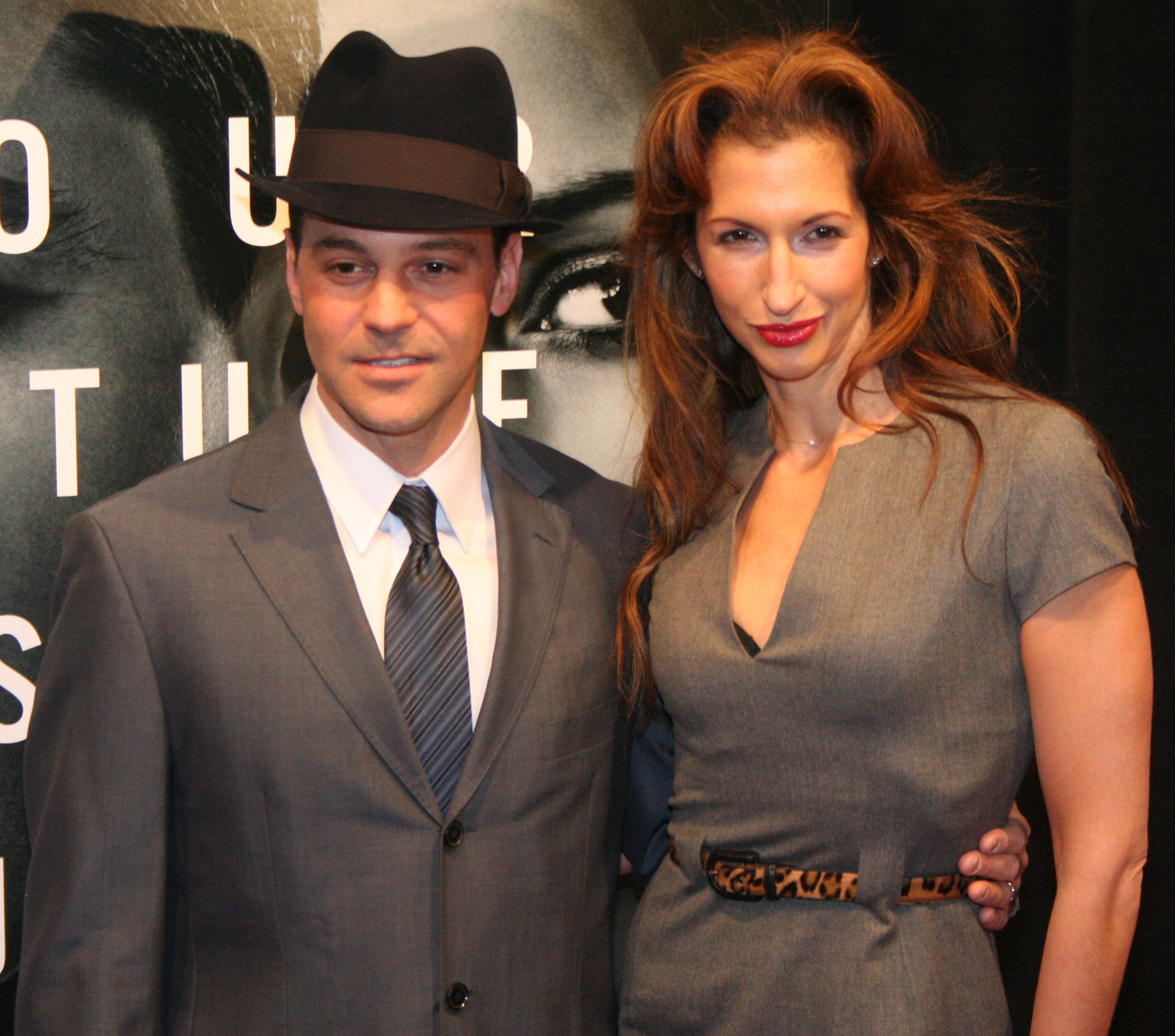 David Alan Basche and Alysia Reiner at the premiere for The Adjustment Bureau in February 2011.